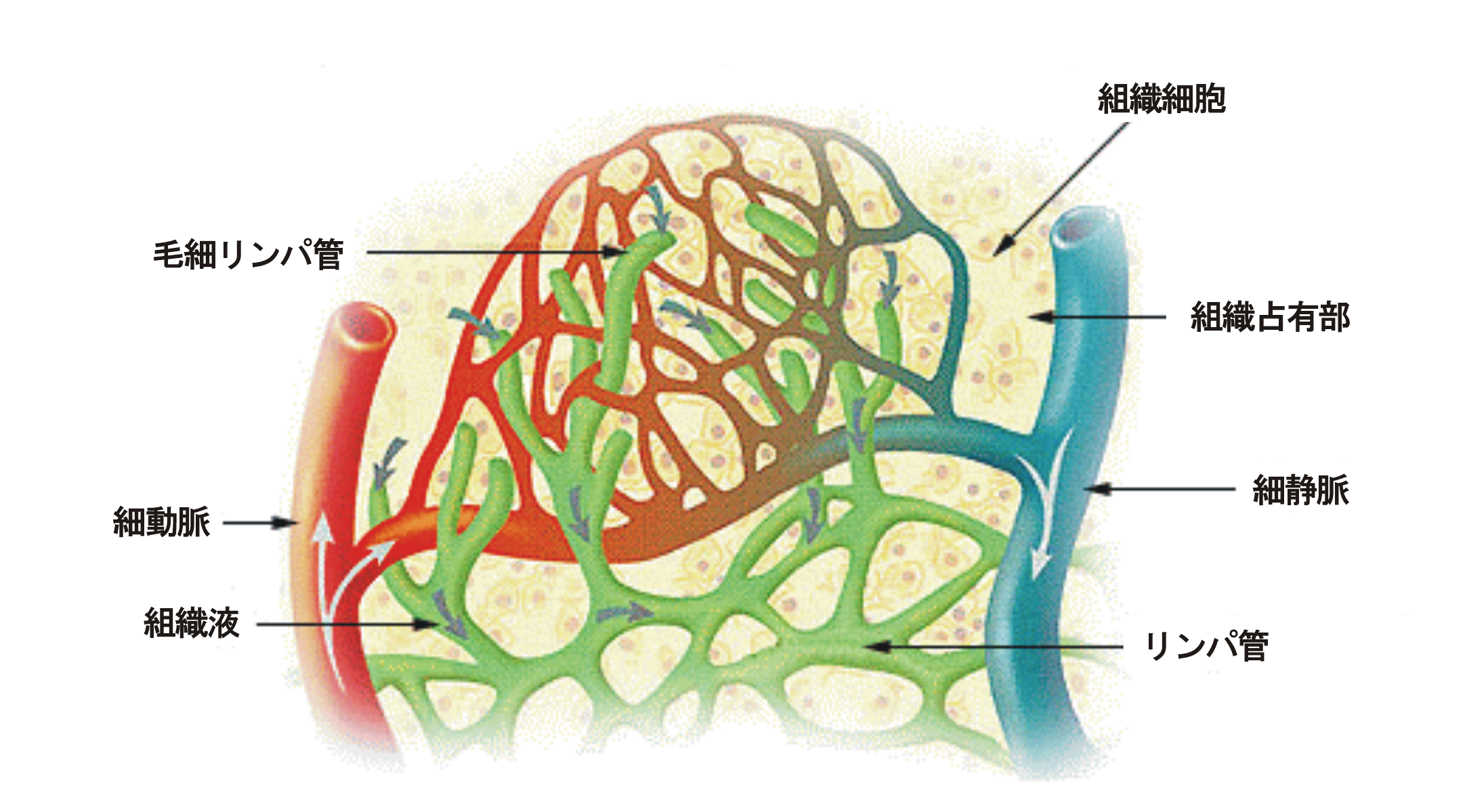 Lymph capillaries in the tissue spaces